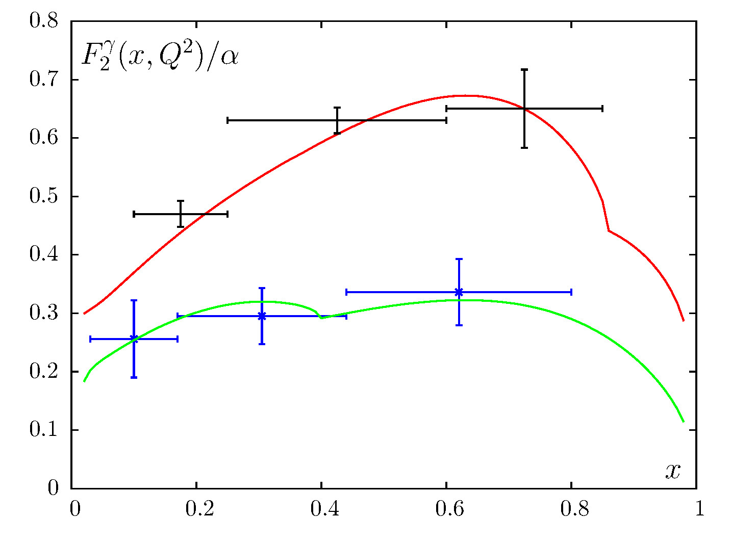 Photon structure function versus x for two different Q squared compared with theoretical model